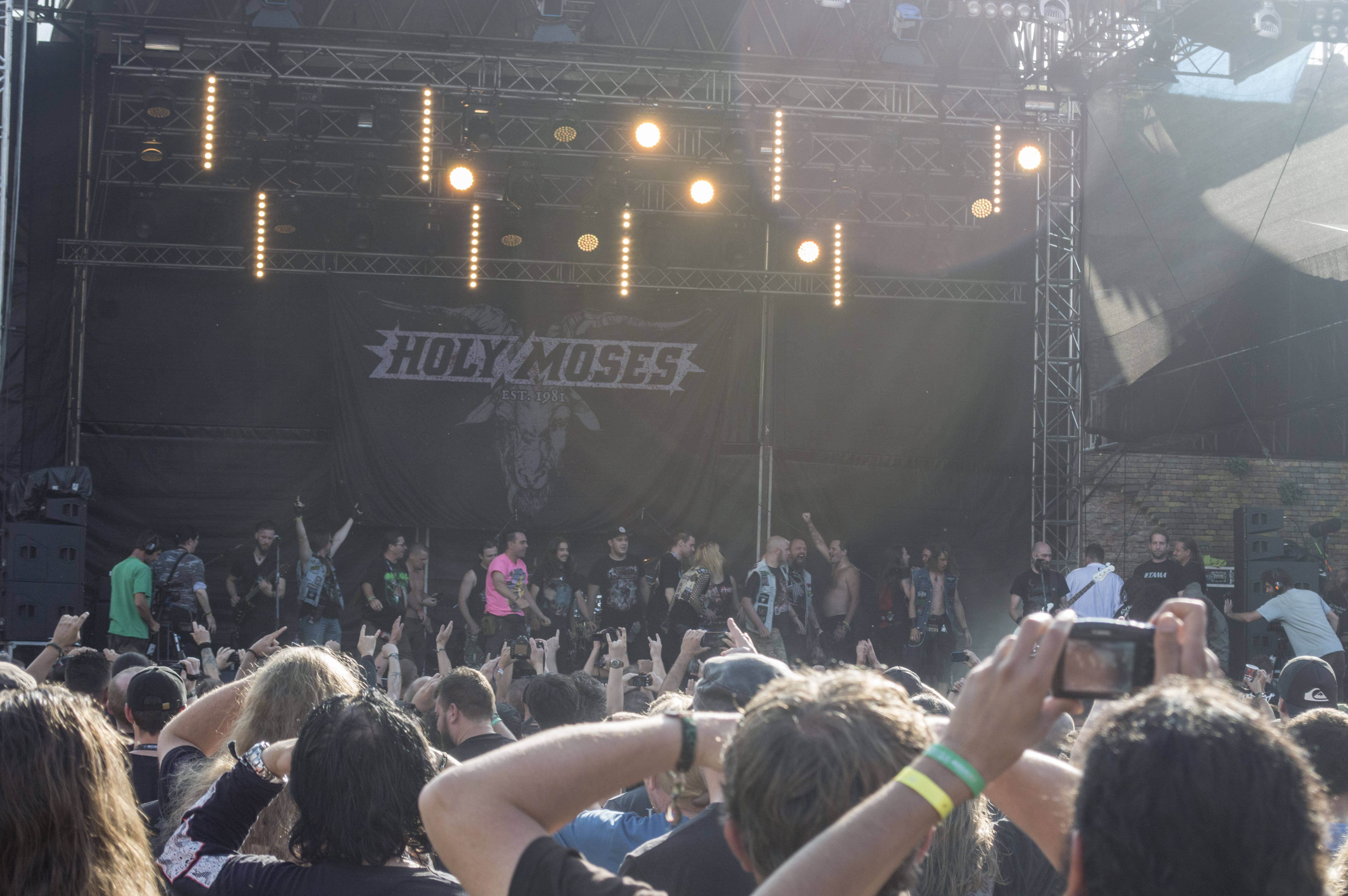 Metal festival Brutal Assault in Josefov, Czech republic.